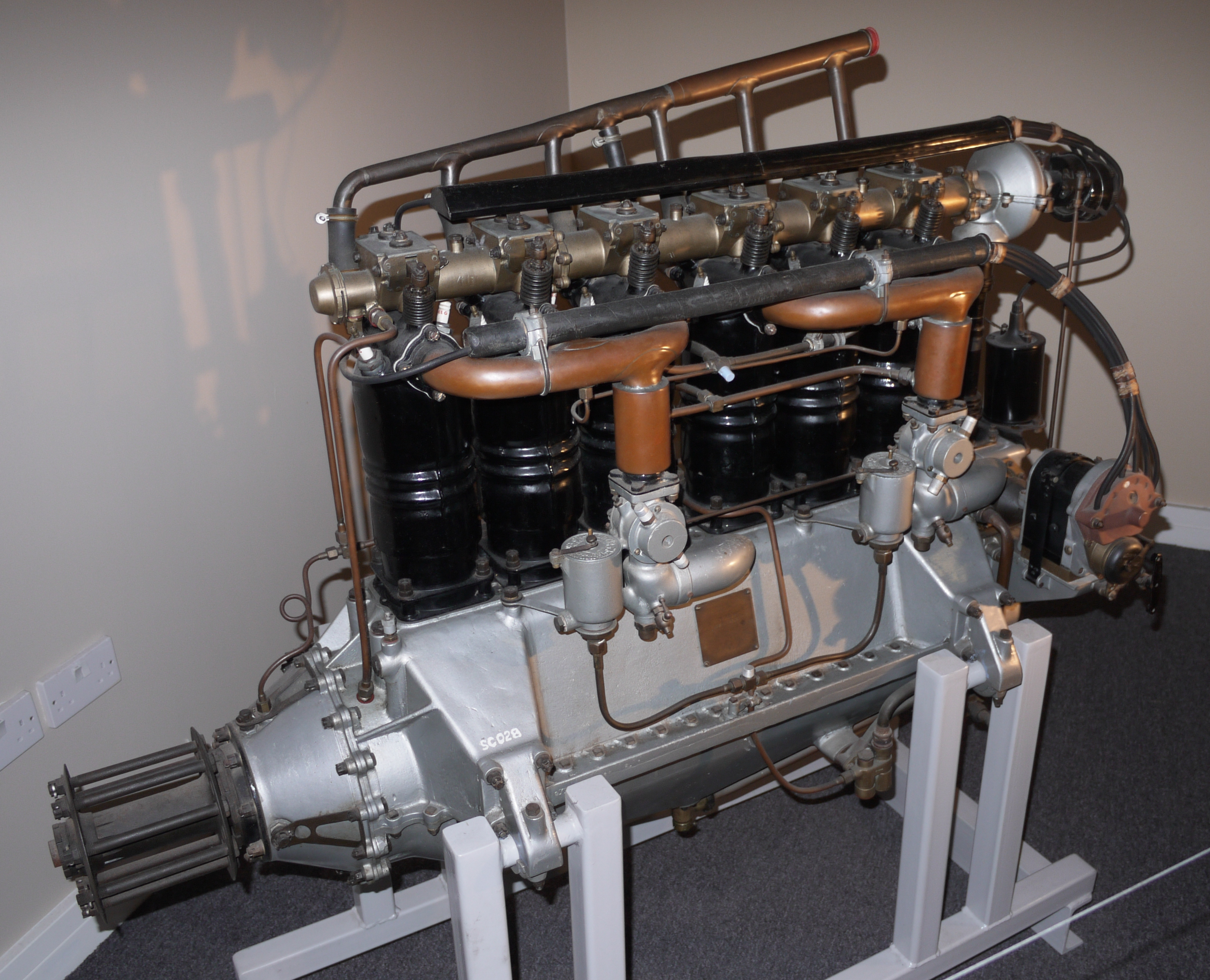 Photo of a Rolls-Royce Hawk engine